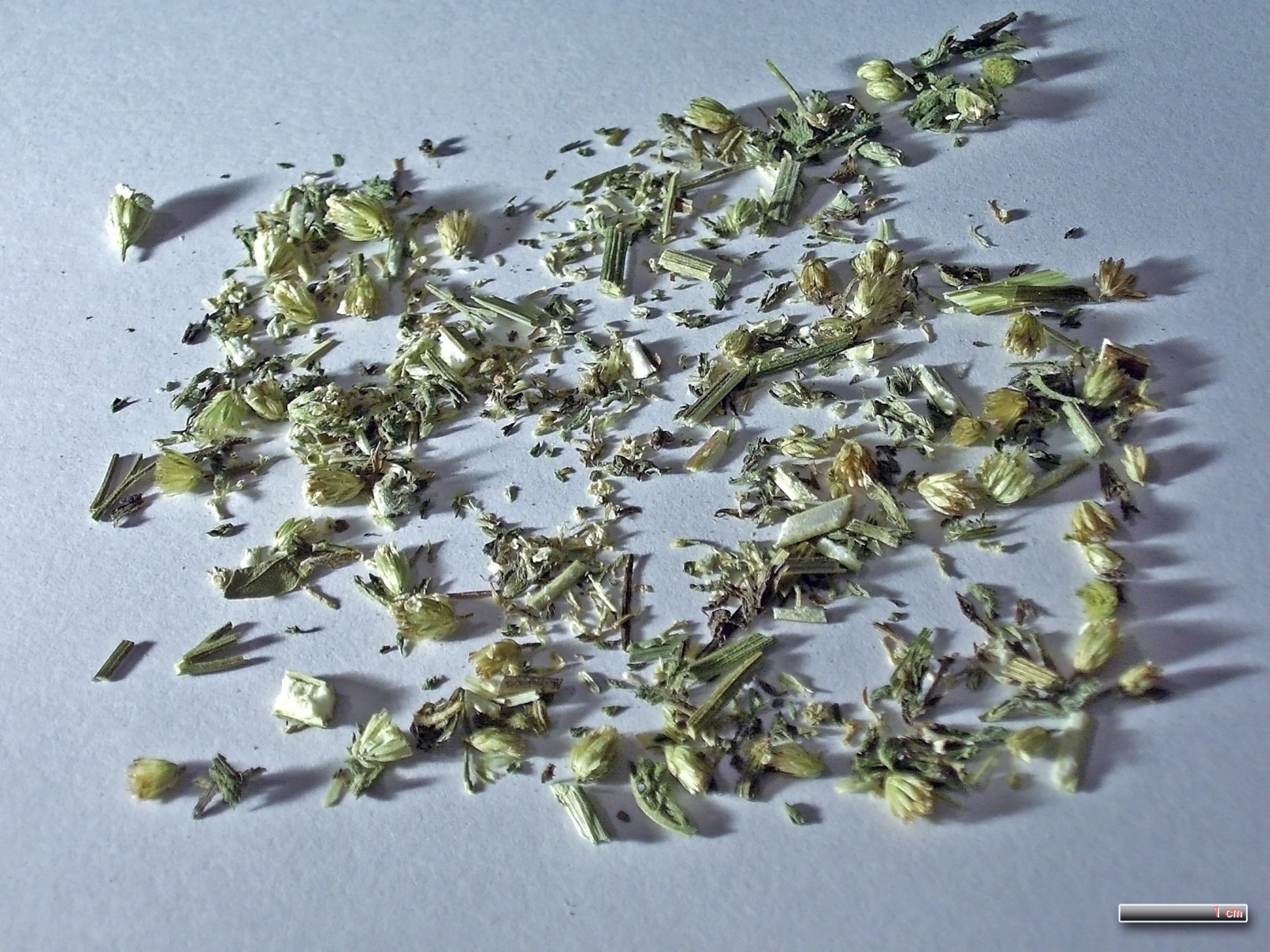 dried common yarrow, gordaldo, nosebleed plant, old man's pepper, devil's nettle, sanguinary, milfoil, soldier's woundwort, thousand-leaf (as its binomial name (Achillea millefolium) affirms), thousand-seal Herb